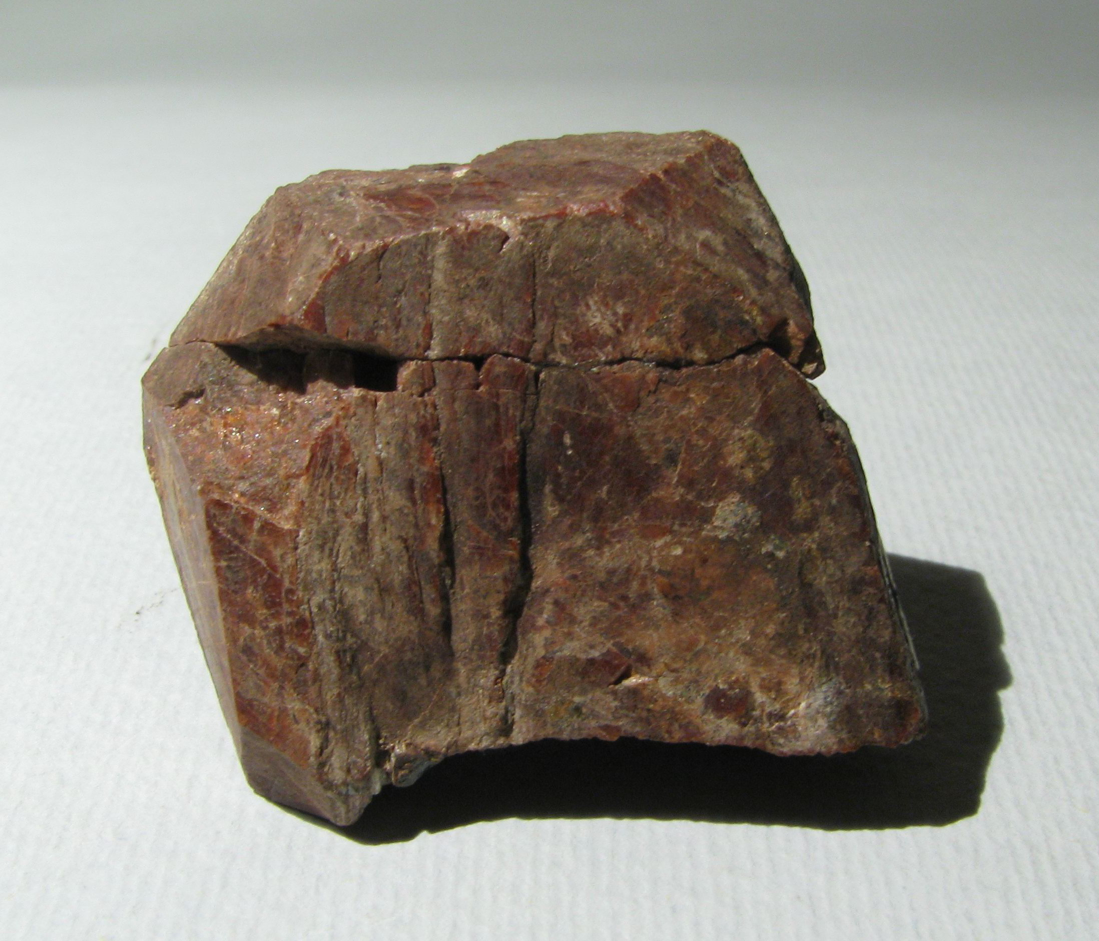 Monazite - tabular crystal, Rostadheia, Iveland, Norway